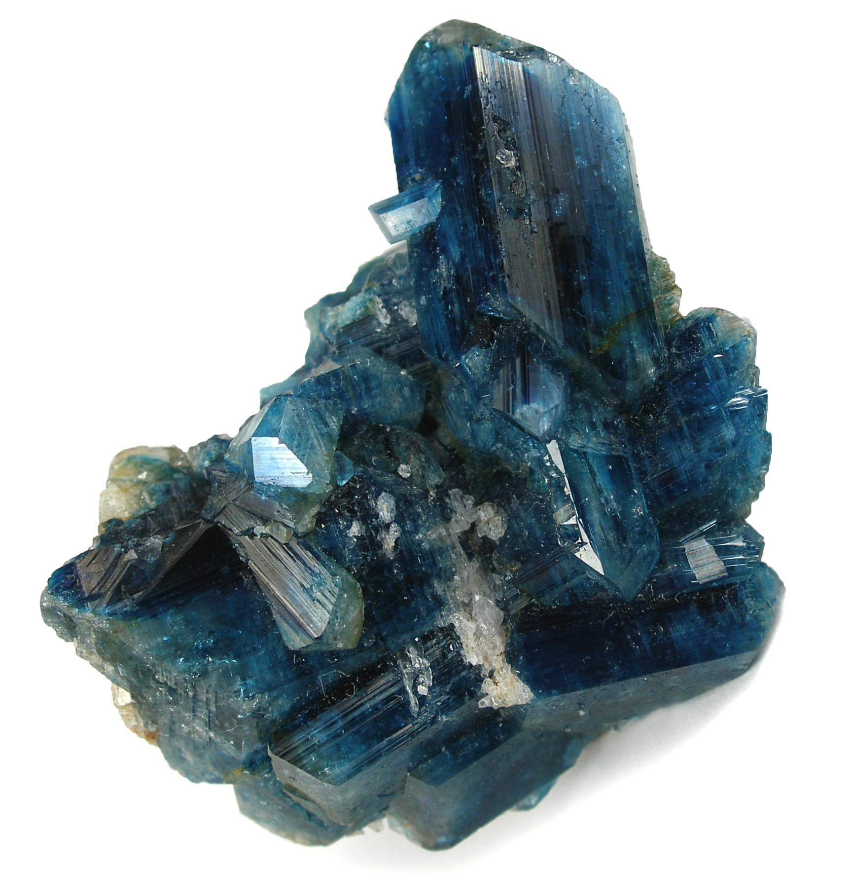 Euclase Locality: Lost Hope Mine, Mwami, Karoi (Urungwe; Hurungwe) District, Mashonaland West, Zimbabwe (Locality at ) Size: miniature, 4.2 x 3.3 x 1.8 cm Euclase Euclase from this important old locality came out mostly in the 1960s, and STILL SETS the standard for coloration in the species. Although Colombia has since produced some more important and larger crystals of higher gem value, that are truly wordclass as well, the euclase from this small and defunct mine is so much more intense in color saturation that they may as well be two separate species as far as comparisons go. This gorgeous specimen has consistent color, superb lustre, and a good aesthetic. Most euclase from this mine is more blocky and compacted, if in clusters at all (though usually only singles survive and are around for sale). The specimen here has not only good aesthetics in the way the major crystals present, but it has good edges or horizons, without the usual butchered contacts at the sides where all too many of these were hacked off their matrix when collected. As far as size, this is also a large cluster, of which I have seen few over the years. It came from the well known collection of Marion Stuart, heiress to the Carnation fortune, when her collection was sold by Wayne Thompson (with help fro mformerly retired dealer Dr. Gary Hansen, who had sold Stuart many of the pieces decades before) in 2001, and has been buried in a collection since that time. It would have been, had I seen it first, one of my first picks for its color and rarity!